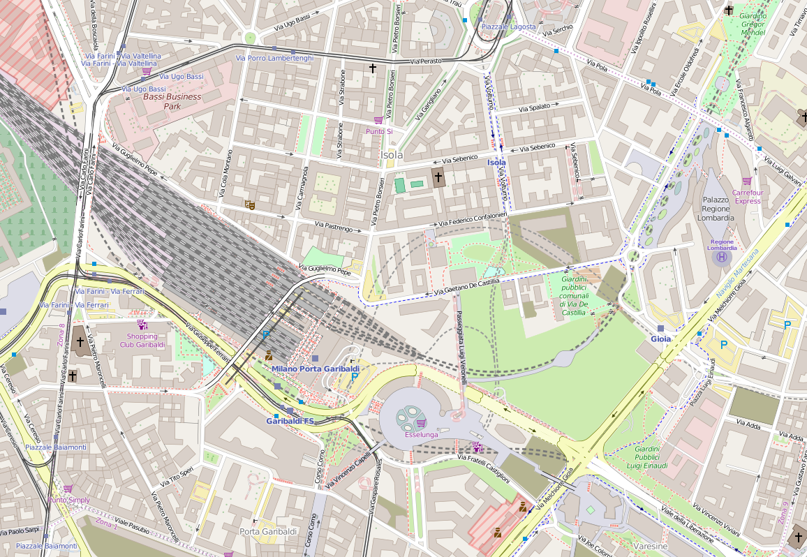 Map of the 'Porta Nuova' financial district in Milan